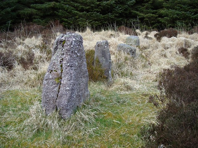 Stone alignment Ancient stone alignment in the Nire Valley.